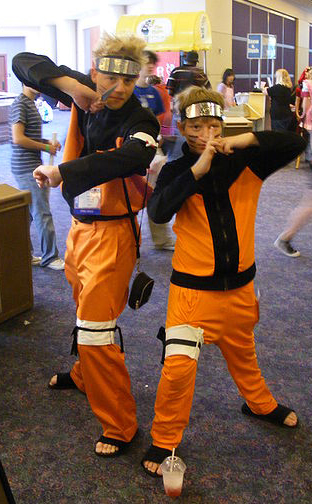 Cosplay photo taken at Anime Weekend Atlanta 14. Pre-and-post-timeskip Narutos.